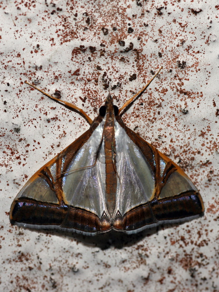 Malaysia, Fraser's Hill. March 2009